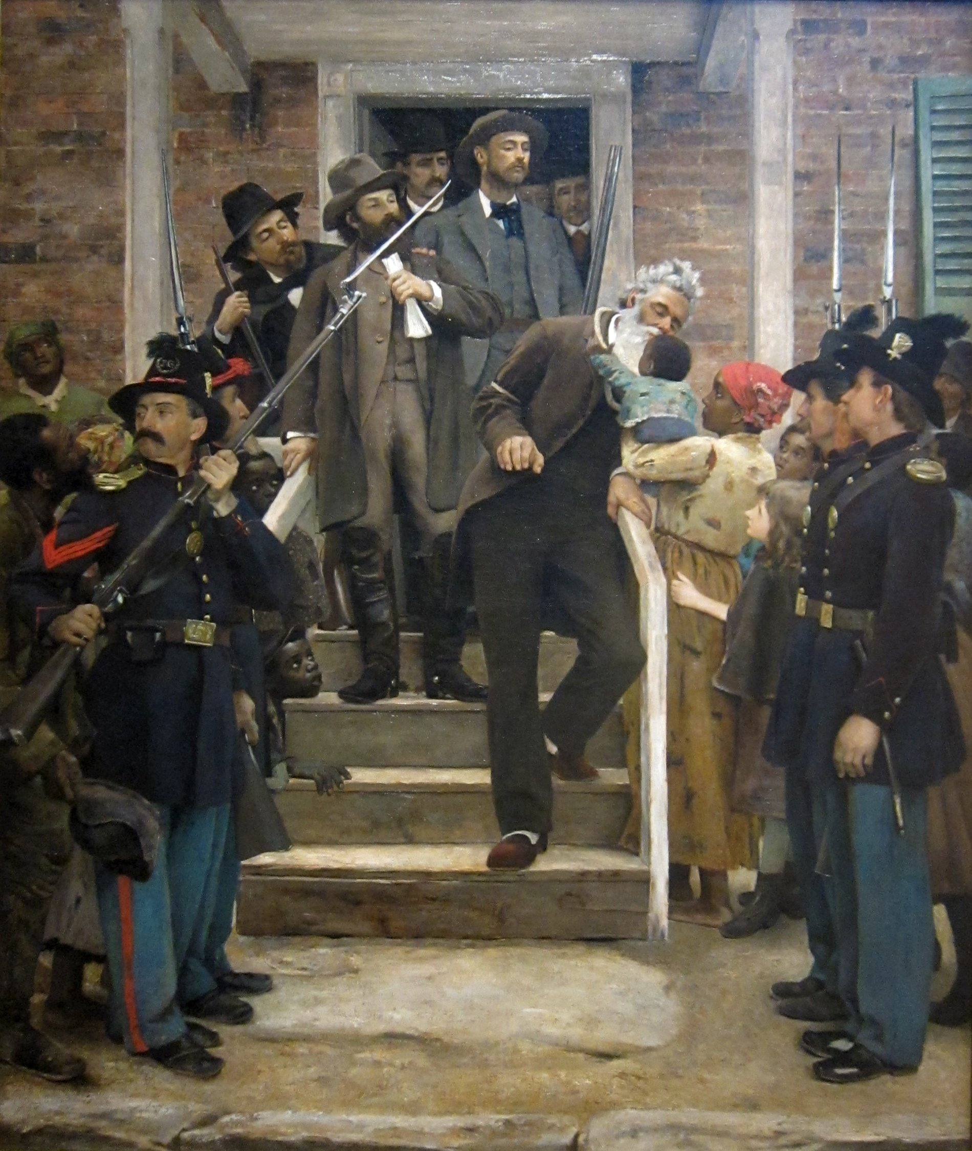 The Last Moments of John Brown, oil on canvas painting by Thomas Hovenden, c. 1884, De Young Museum